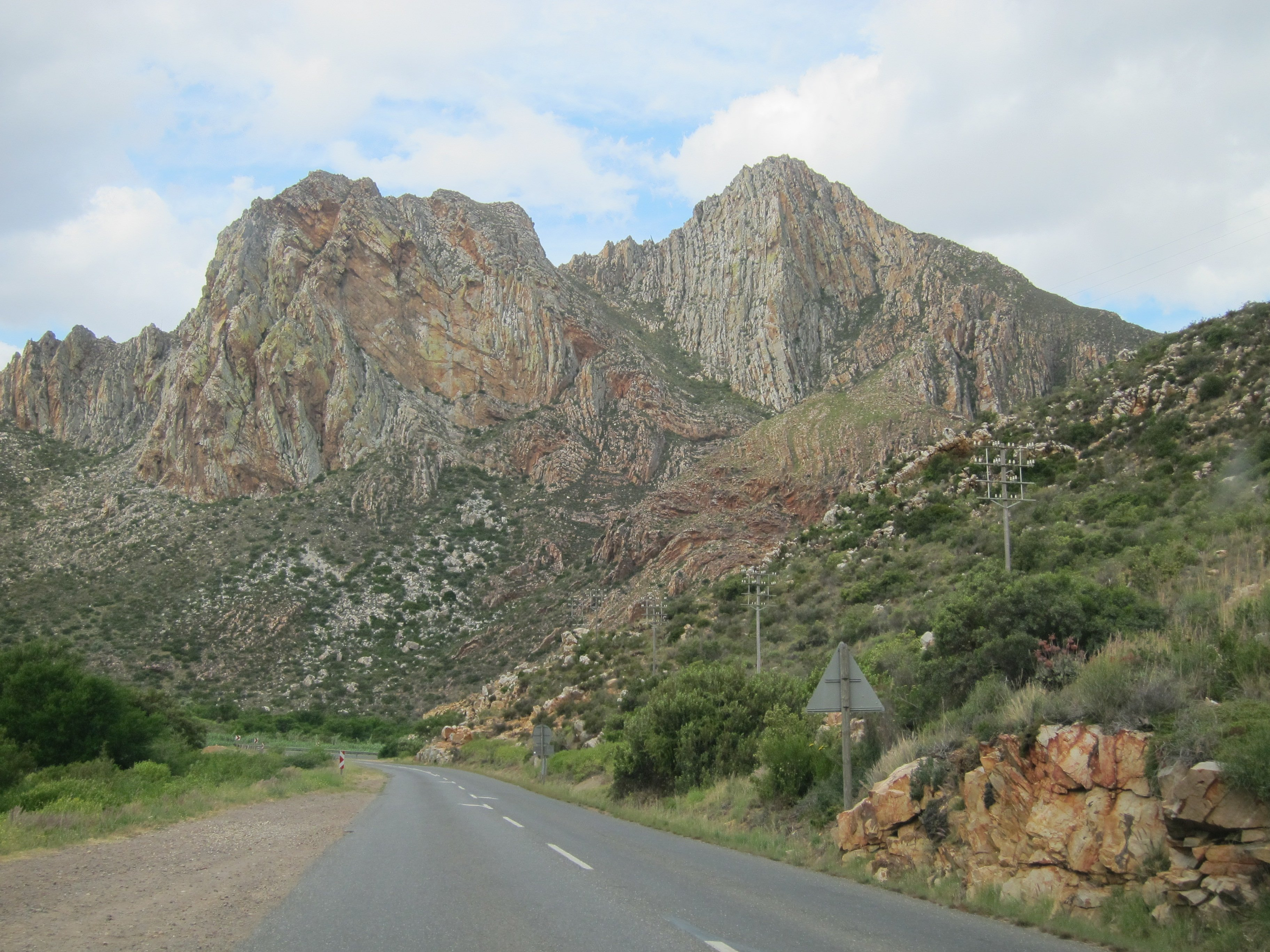 Cogmanskloof on the way to Montagu, South Africa